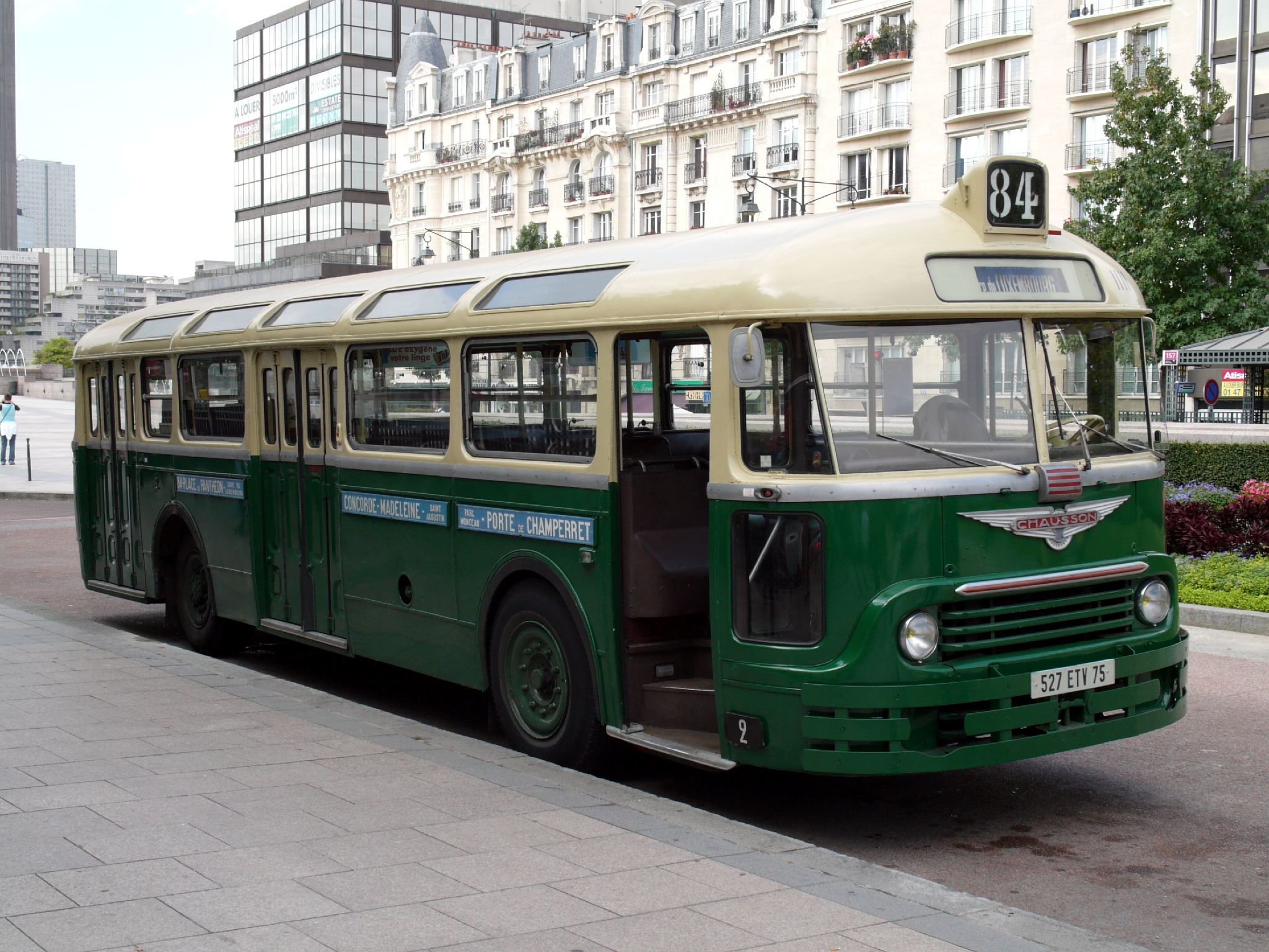 bus of RATP (parisian transportation) builded by Chausson